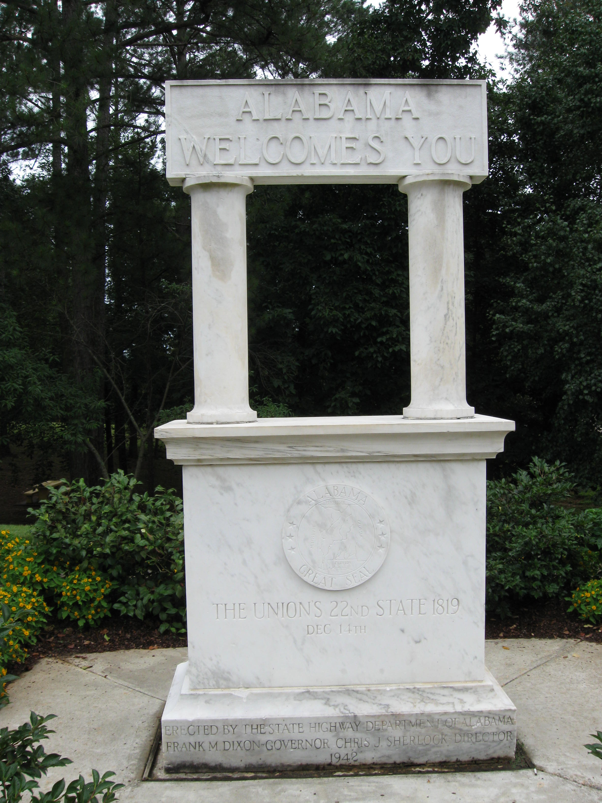 Structure welcoming tourists to Alabama